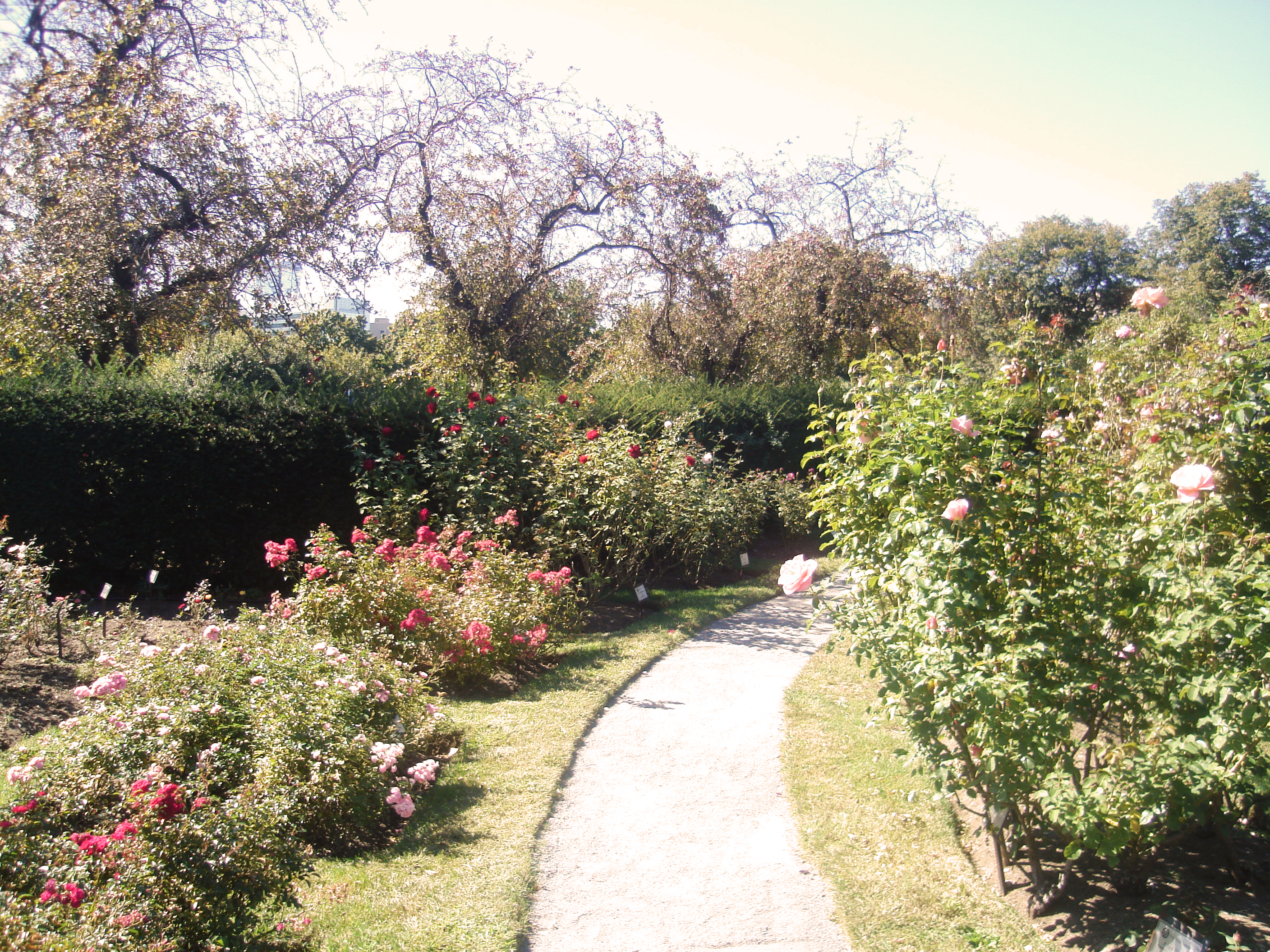 Kelleher Rose Garden, Back Bay Fens, Boston, Mass. Photo taken 9/29/09 by Mar Thivierge